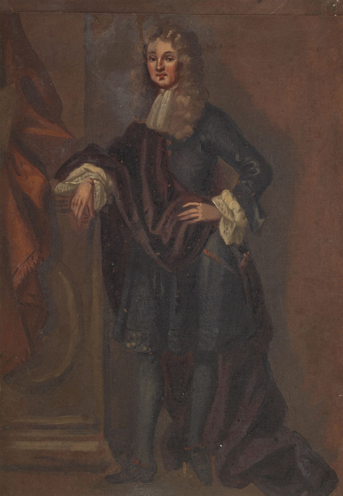 A 34.6 x 24 cm oil-on-paper portrait painting of Hugh Hare after Godfrey Kneller held at the Scottish National Portrait Gallery